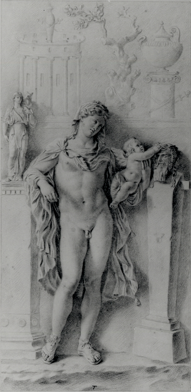 Study of a relief decorated with a Hermaphrodite; in the Palazzo Colonna. From a volume of 119 drawings illustrating Roman sculpture. Black chalk.